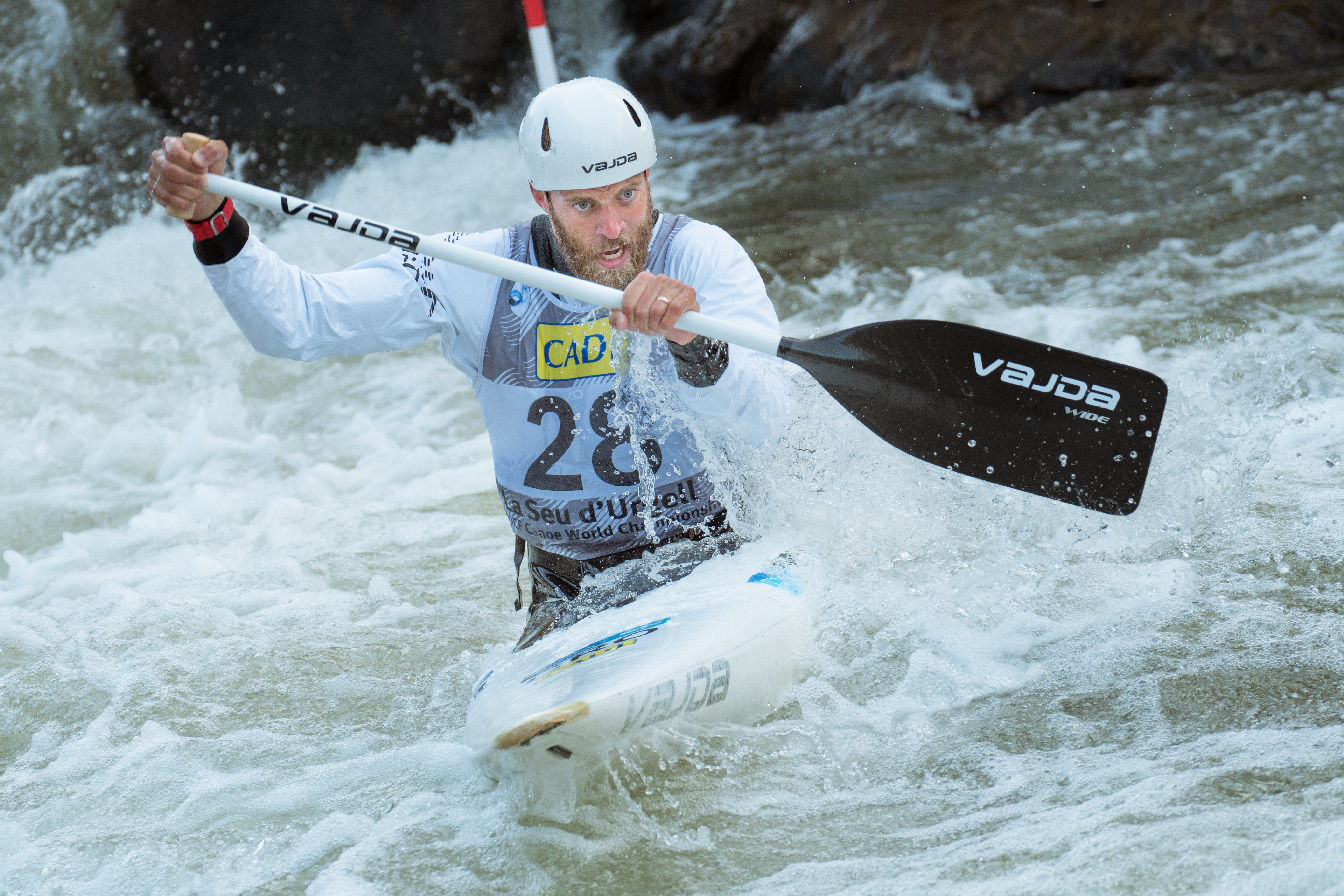 Matija Marinić during the 2019 Canoe Slalom World Championships in La Seu d'Urgell, Spain.